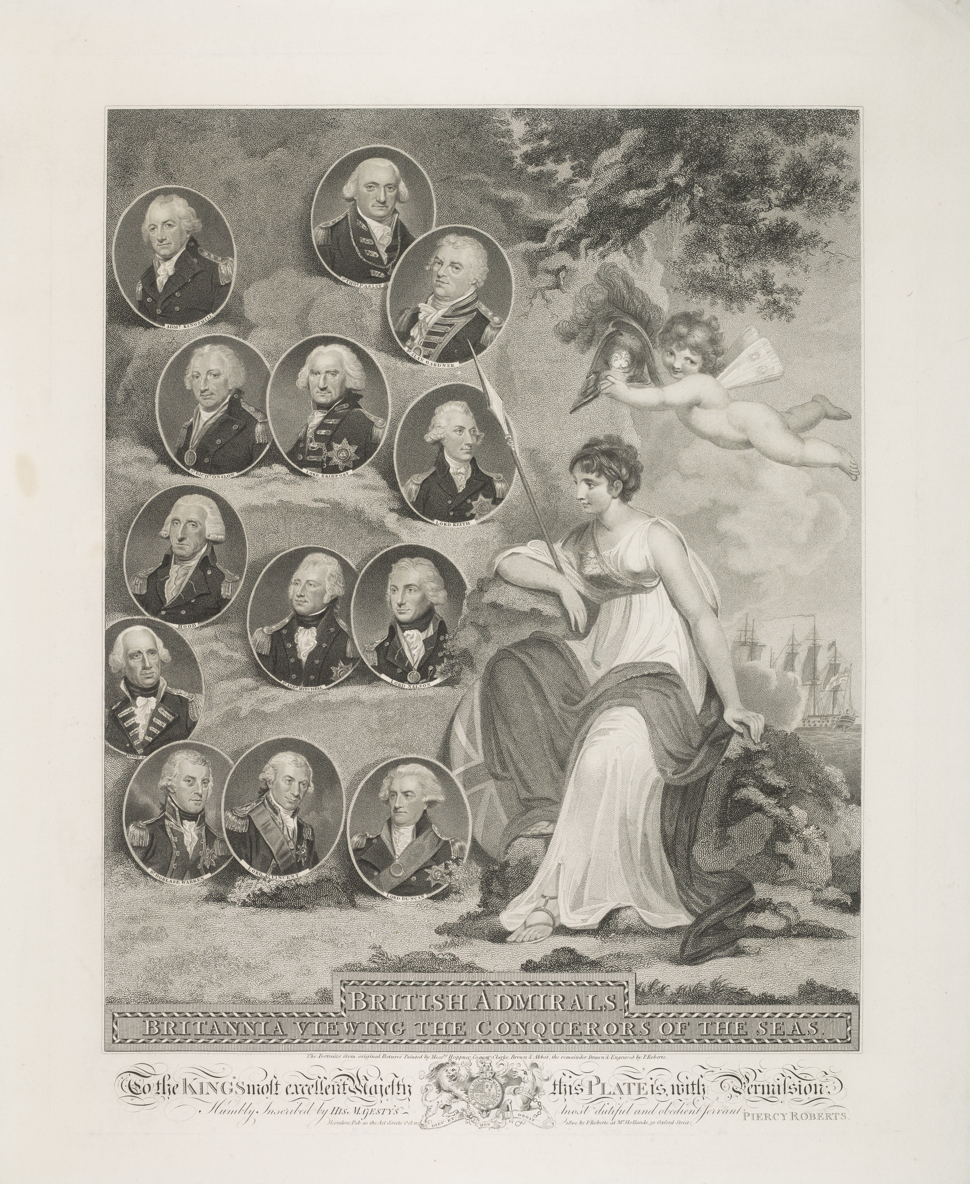 British Admirals - Brittania Viewing the Conquerors of the Seas, by Piercy Roberts. After original pictures painted by Messrs. Hoppner, Cosway, Clarke, Brown, & Abbot, the remainder drawn and engraved by P. Roberts. Stipple Museum number 1870,1008.2427 National Galleries Scotland From top left: Admiral Sir Robert Kingsmill, First Baronet Admiral Sir Thomas Pasley, First Baronet Admiral Sir Alan Gardner, First Baron Gardner Admiral Sir Richard Onslow, First Baronet Admiral Sir Alexander Hood, First Viscount Bridport Admiral Sir George Elphinstone, First Viscount Keith Admiral Sir Samuel Hood, First Viscount Hood Admiral Sir Andrew Mitchell Admiral Sir Horatio Nelson, First Viscount Nelson, First Duke of Bronté Admiral Sir Richard Howe, First Earl Howe Admiral Sir John Borlase Warren, First Baronet Admiral Sir John Jervis, First Earl St Vincent Admiral Adam Duncan, First Viscount Camperdown